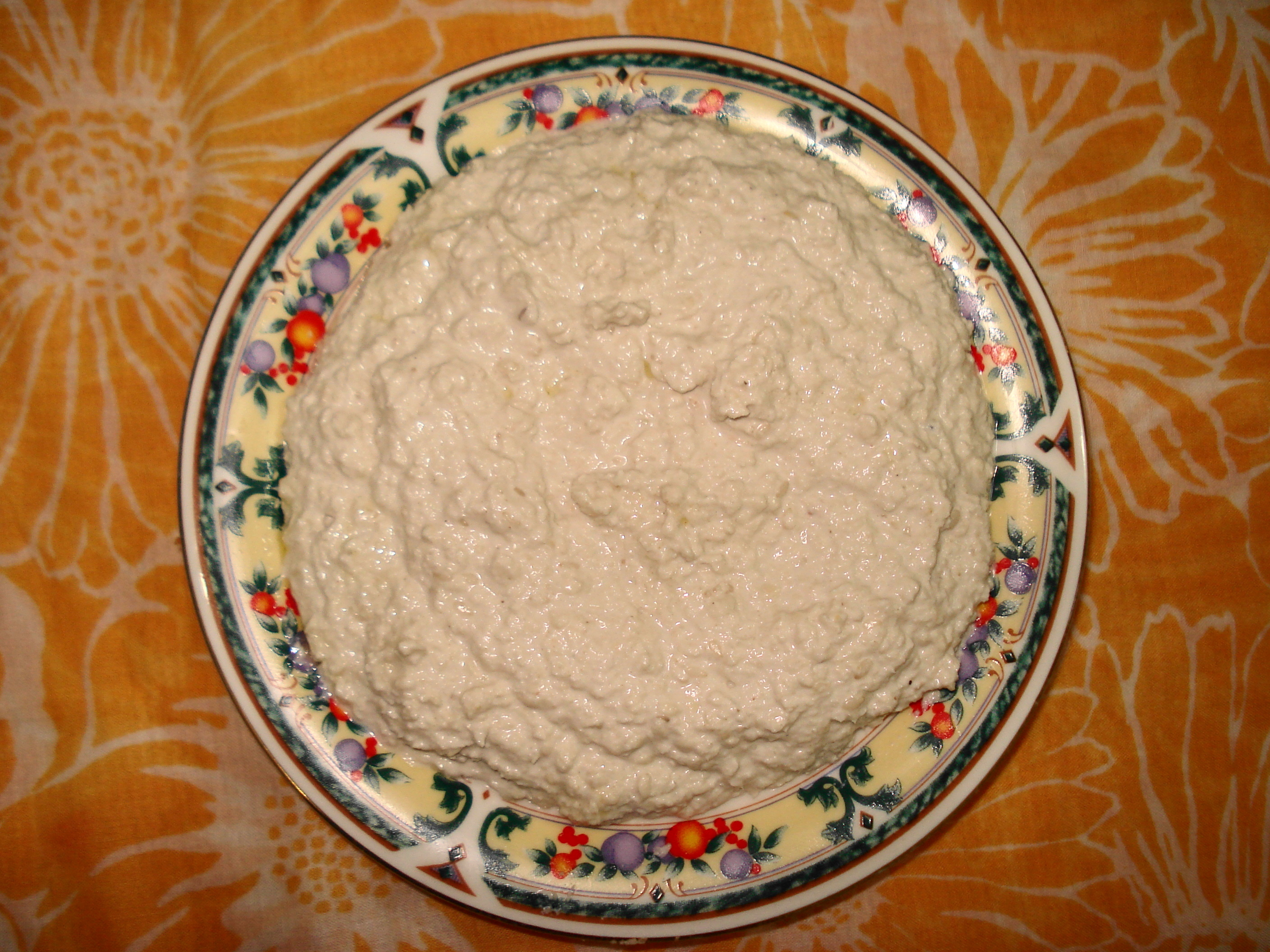 Tahini , Tahina